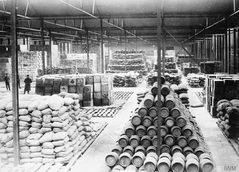 The British Army on the Western Front, 1914-1918 Interior of a hanger, Case Goods Depot of the Base Supply Depot, Vendroux.